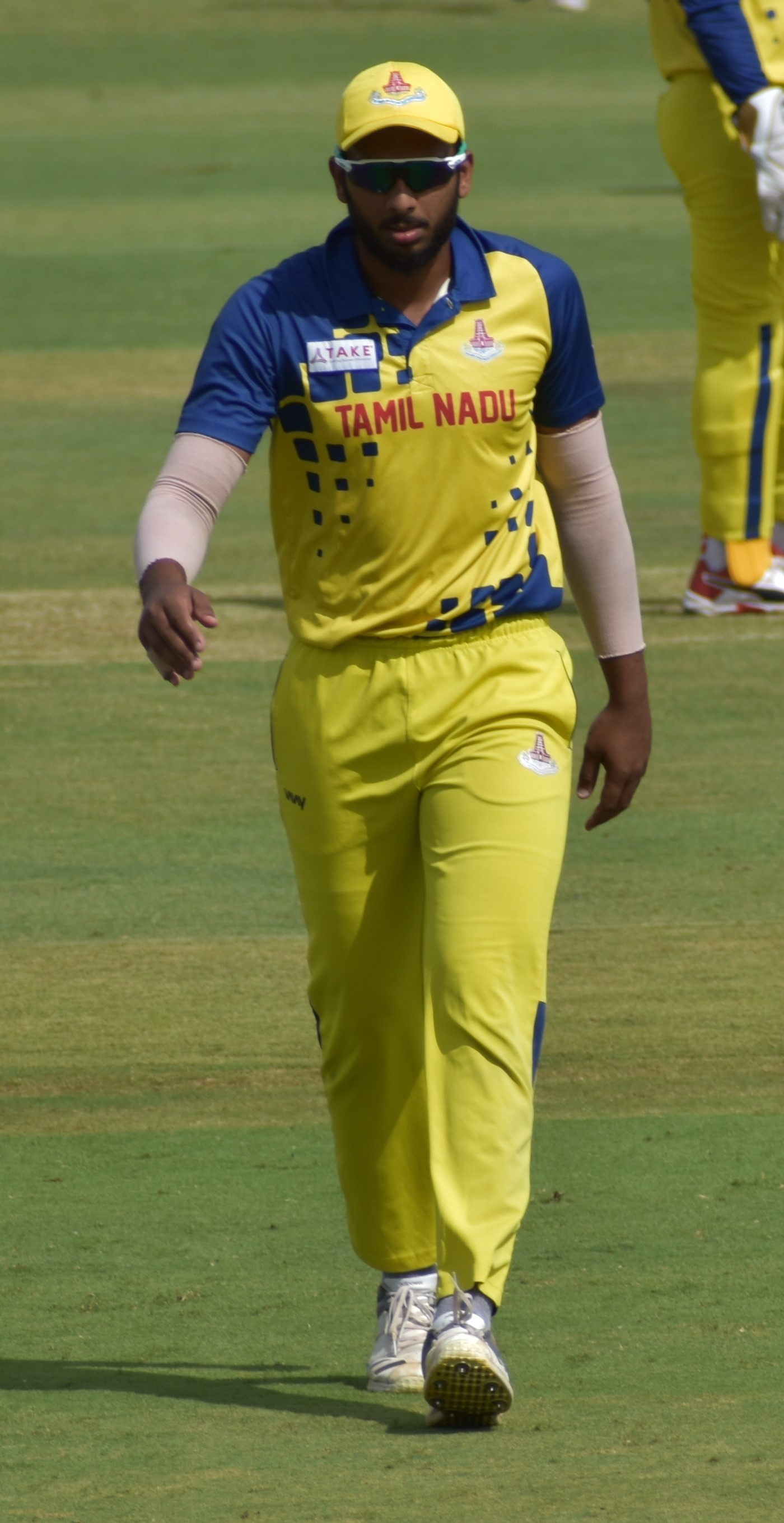 Indian cricketer Shahrukh Khan during the 2019-20 Vijay Hazare Trophy in Alur, Bangalore.